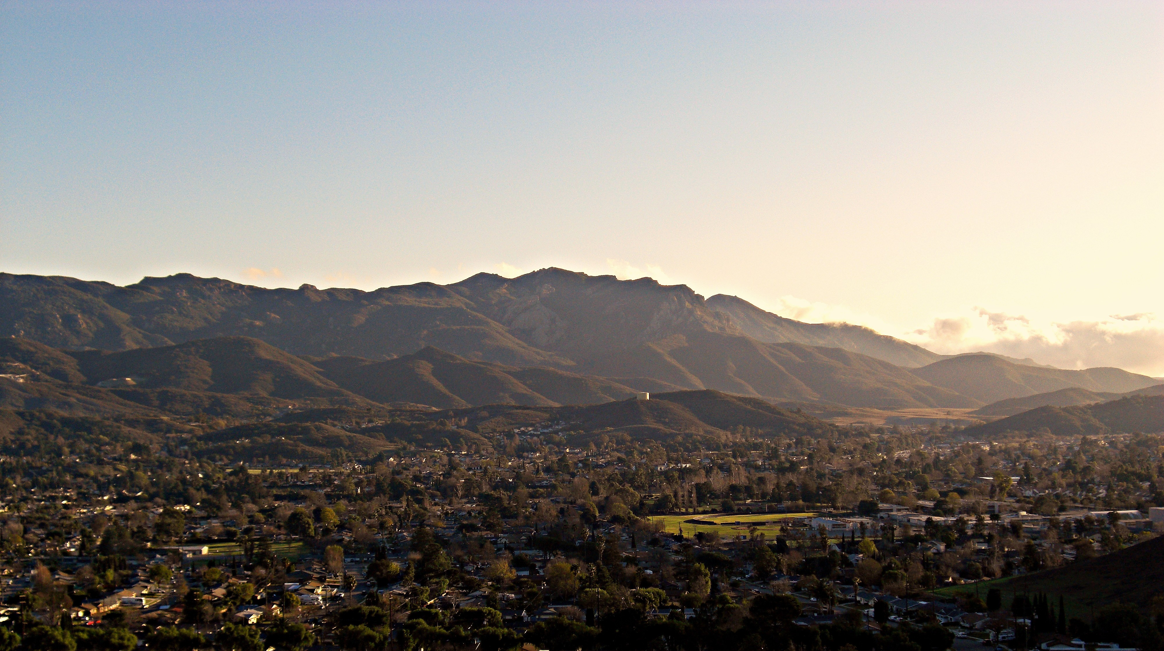 A view of the Casa Conejo Area from a hill North of U.S. 101. (34.197377,-118.945745), facing South.